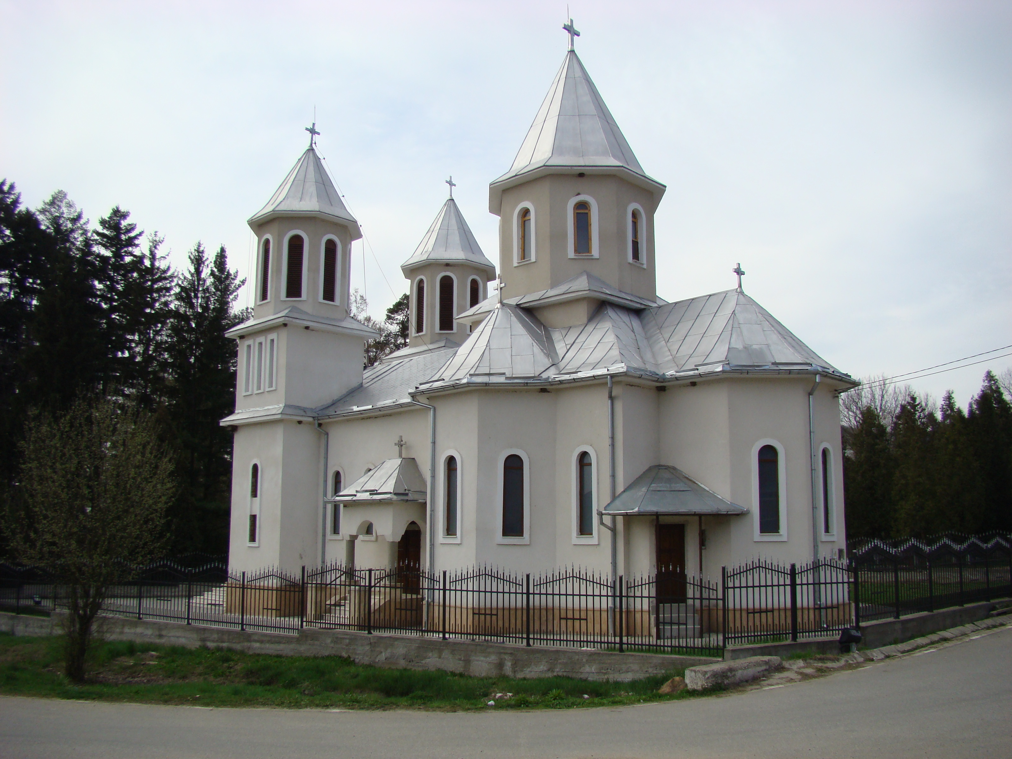 Zam, Hunedoara county, Romania